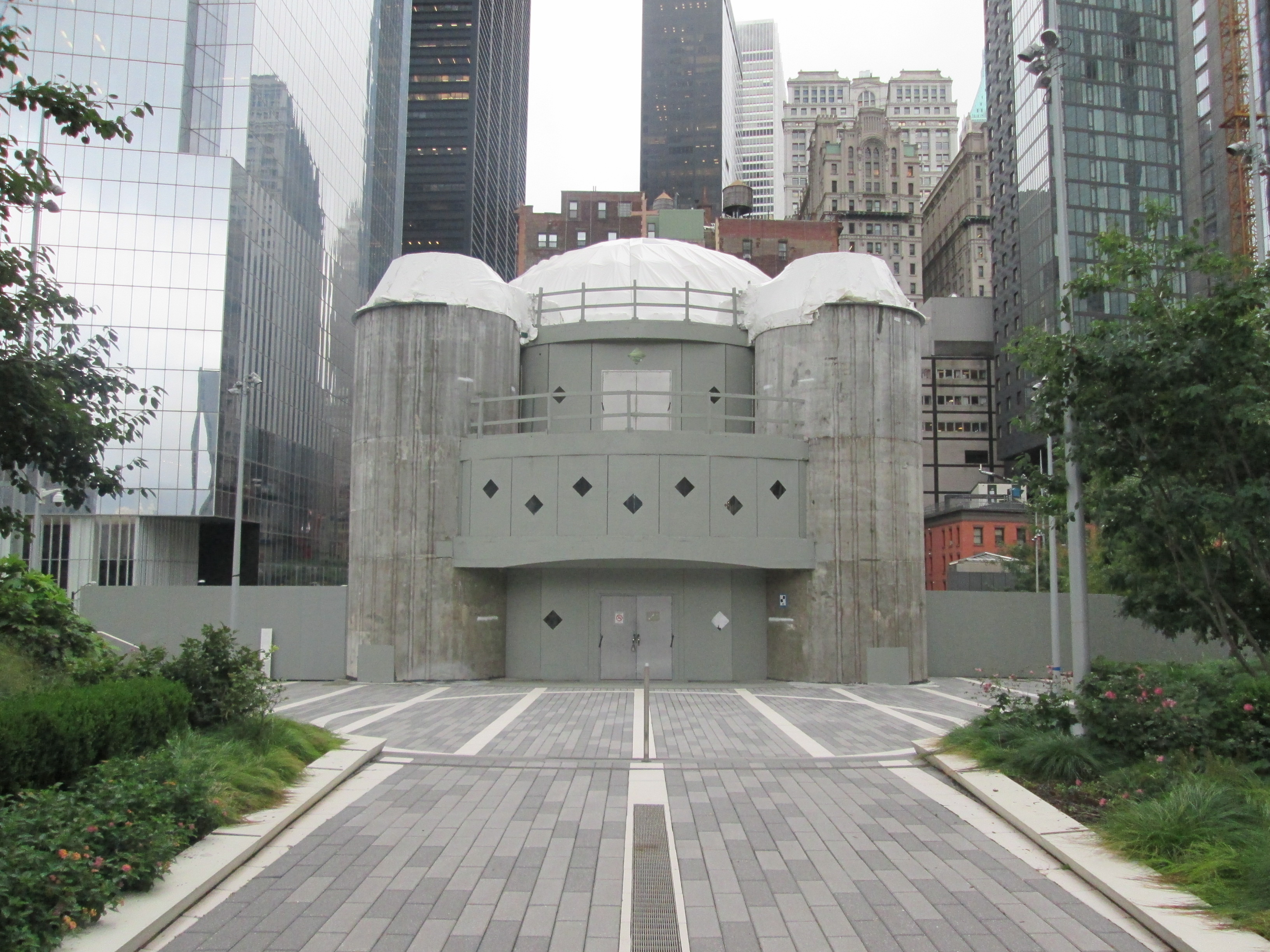 The future St. Nicholas Greek Orthodox Church at Liberty Park in New York City, seen in September 2018 from the west